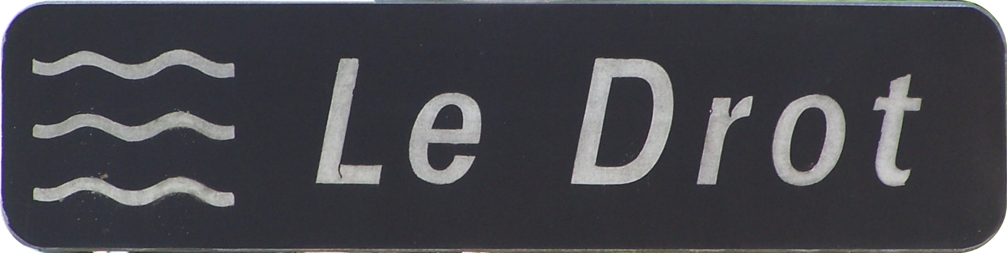 Panel of the Dropt Bagas (Gironde, France)